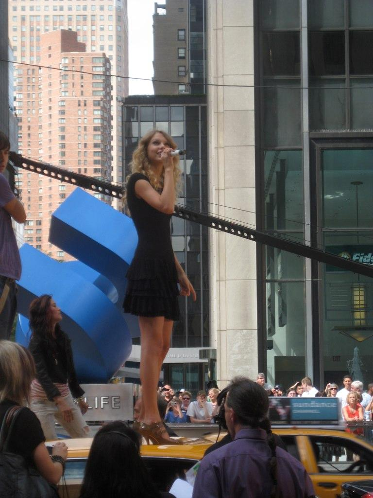 Taylor Swift performing at the 2009 MTV Video Music Awards.